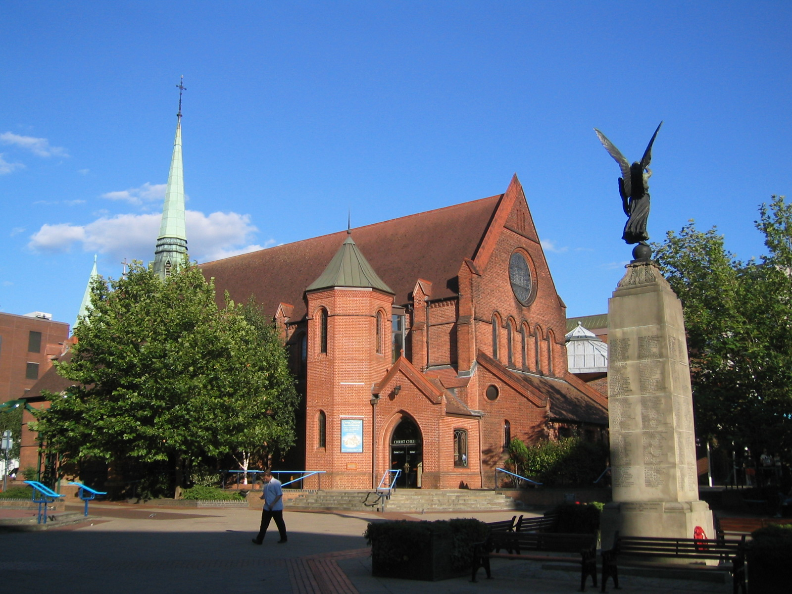 Town Square in Woking, Surrey, UK, featuring Christ Church and the War Memorial.